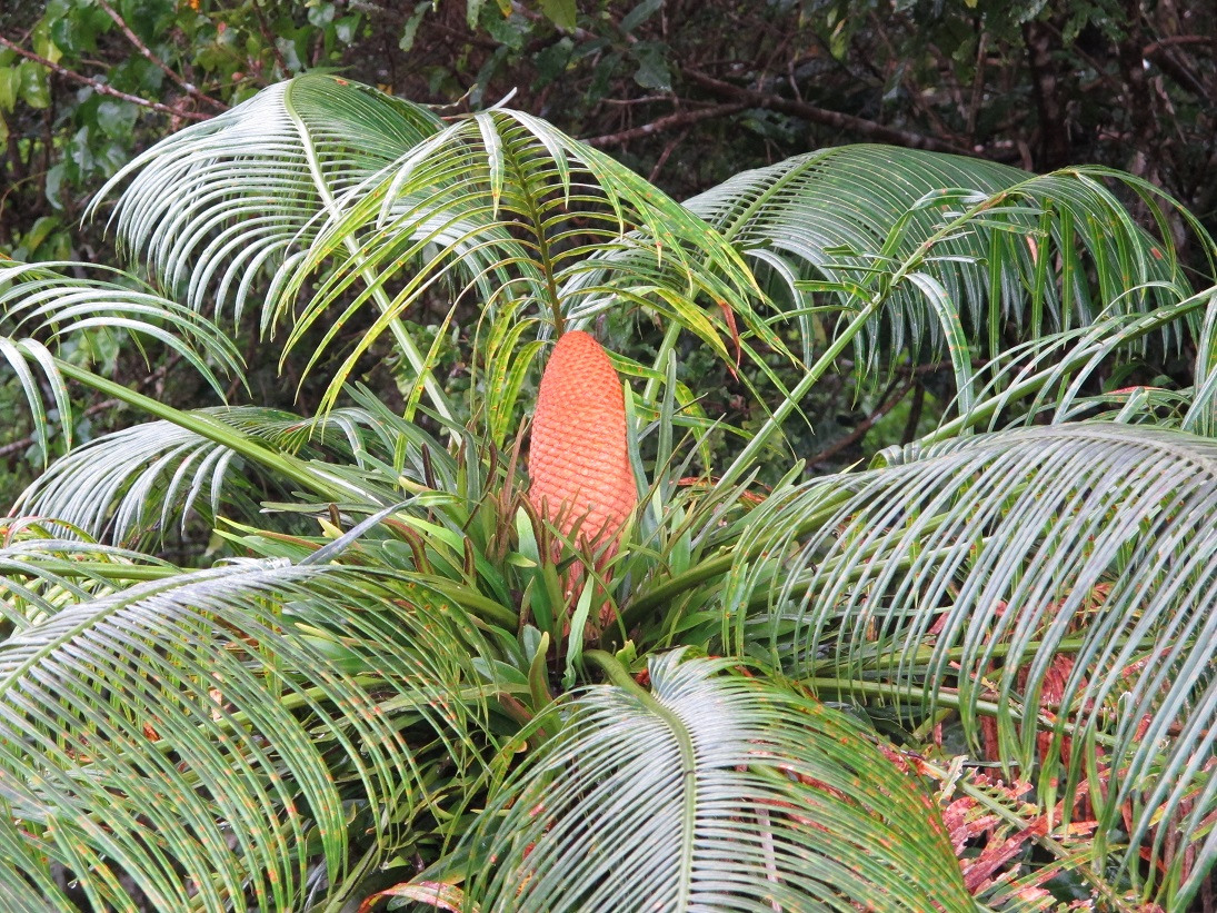 Cycas micronesica photo courtesy A. Gawel